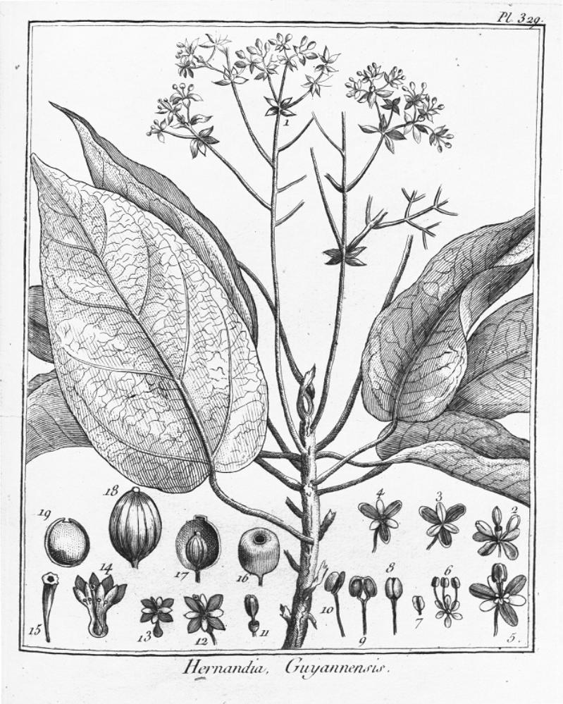 Illustration of Hernandia guianensis (Orig. Hernandia guyannensis)